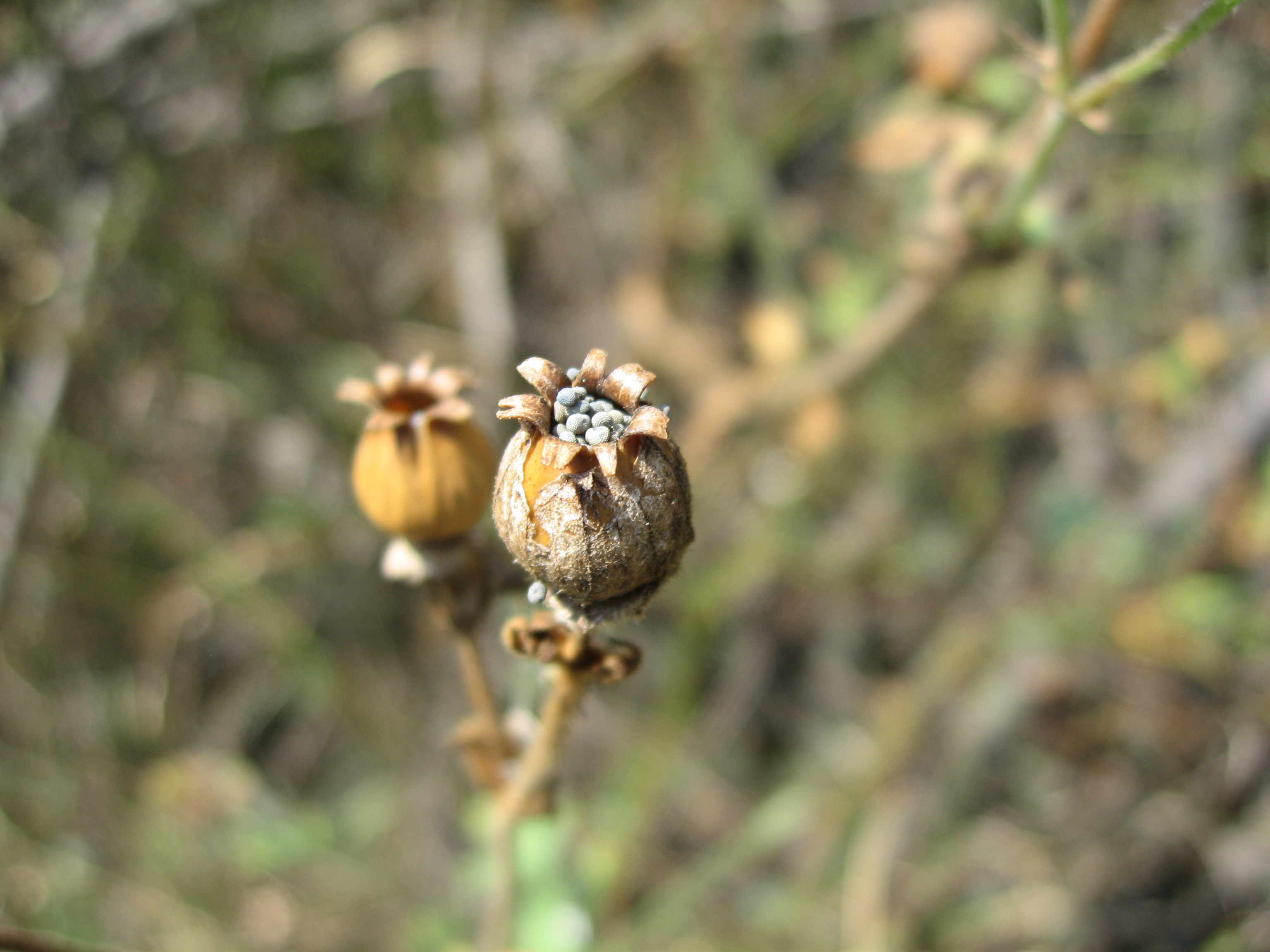 Silene latifolia fruit. The seeds are pushed up by a larva.